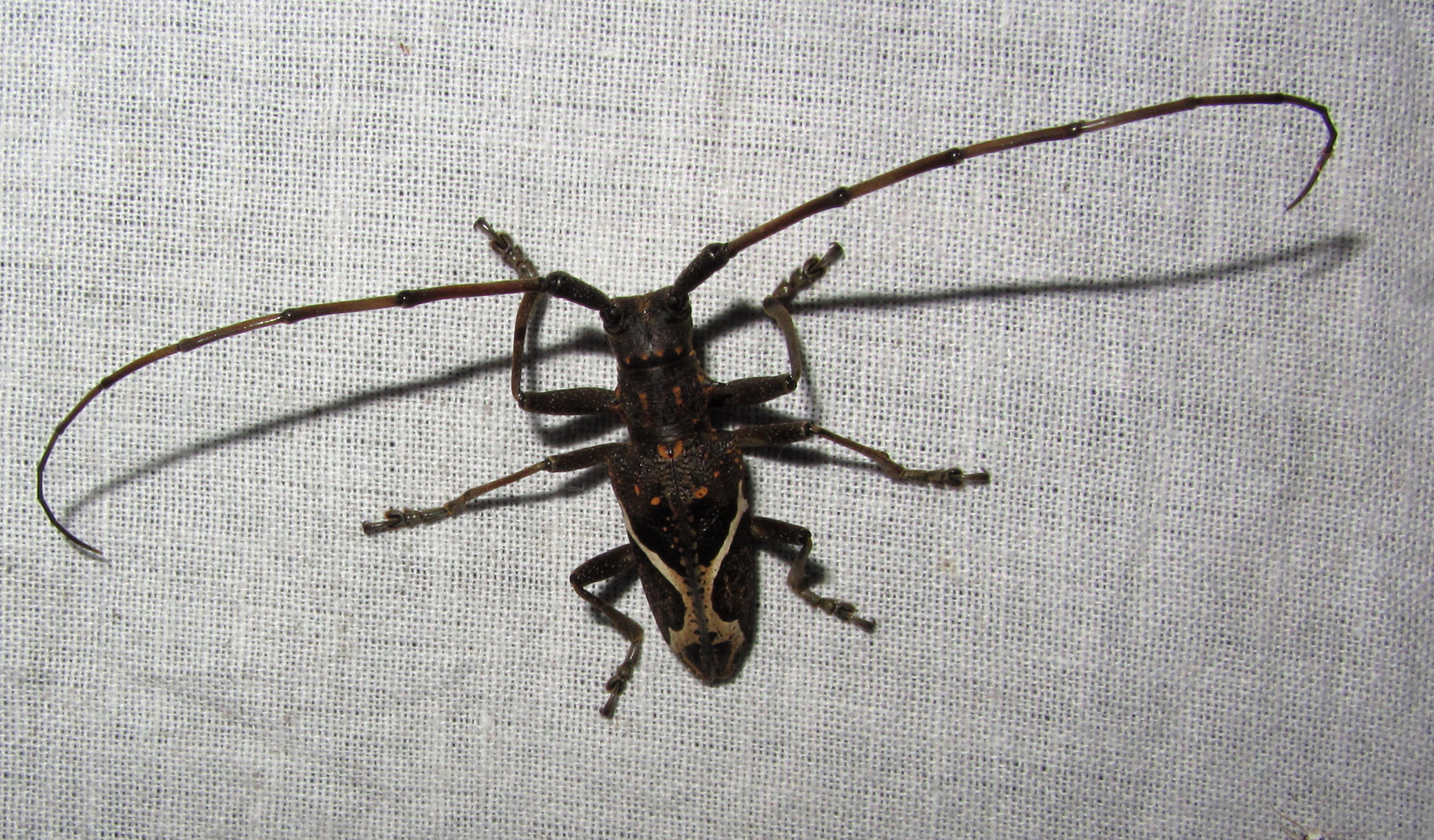 Anti-poaching camp, Pakke Tiger Reserve, East Kameng, Arunachal Pradesh, India 16 April 2012